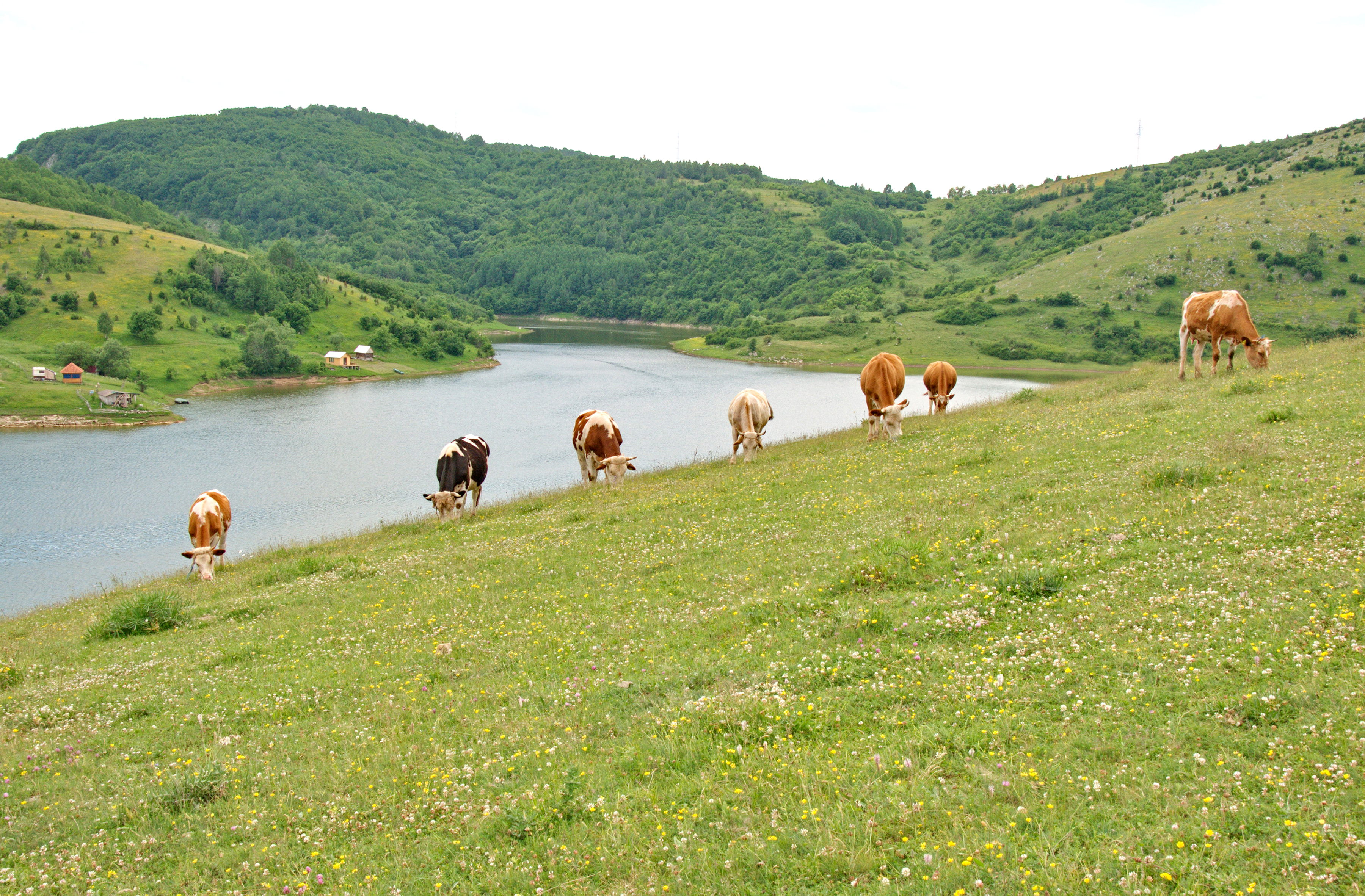 Panoramic scenes of the Pester plateau, karst region in southwestern Serbia. It situated in the area of Raska. The most part of Pešter is located in the municipality of Sjenica. The relief of Pester Plateau is characterized by low, hilly terrain, streams of clean water and vast meadows that are used for grazing sheep and cattle. Pester field is a region of outstanding natural value. A part of Pester is the Uvac River Canyon. In the canyon of the river Uvac nests large colony of eagles, vultures - Gyps fulvus.